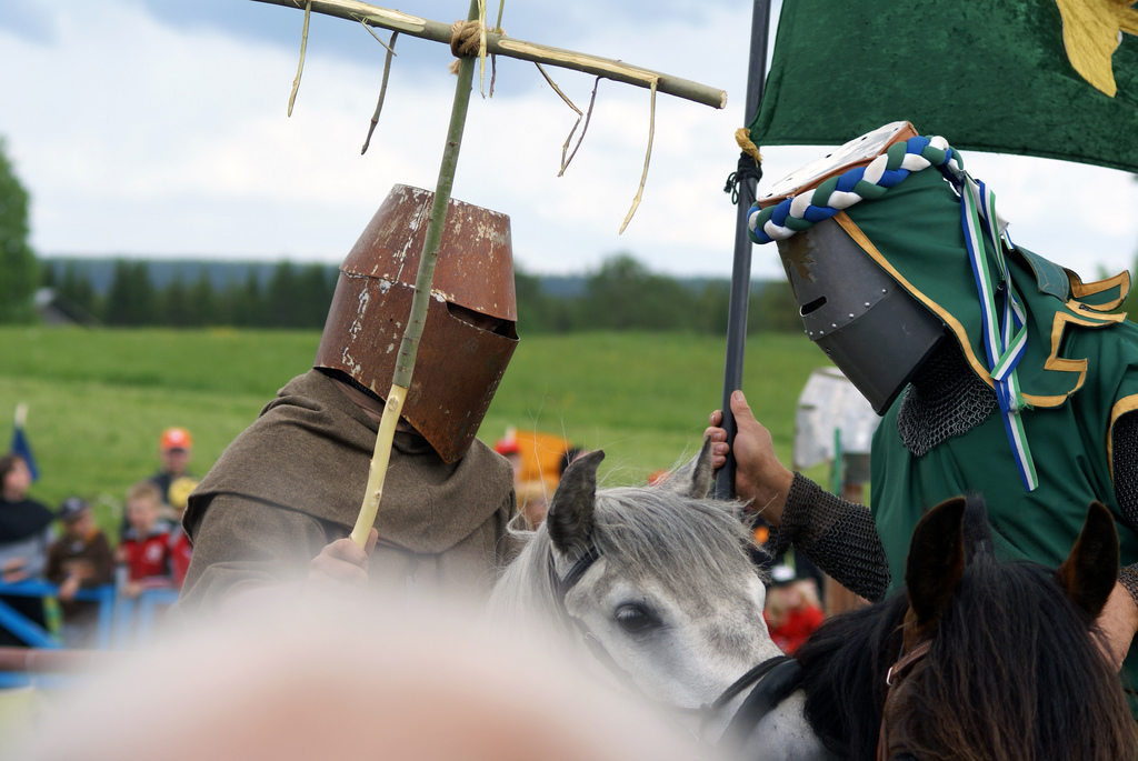 The misdirected monk and Knight Elkcrown are arguing about the same maid. Medieval tournament in Lorås, Jämtland, Sweden.